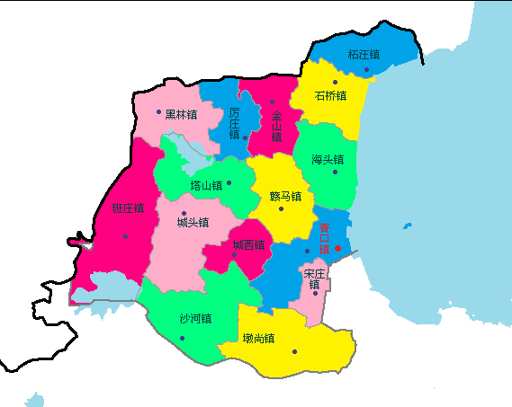 Map of Administrative divisions in Gan-Yu County